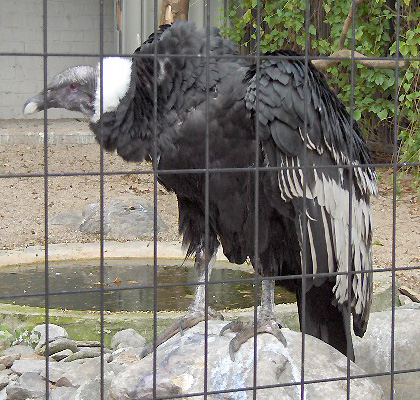 Species Vultur gryphus Family Cathartidae